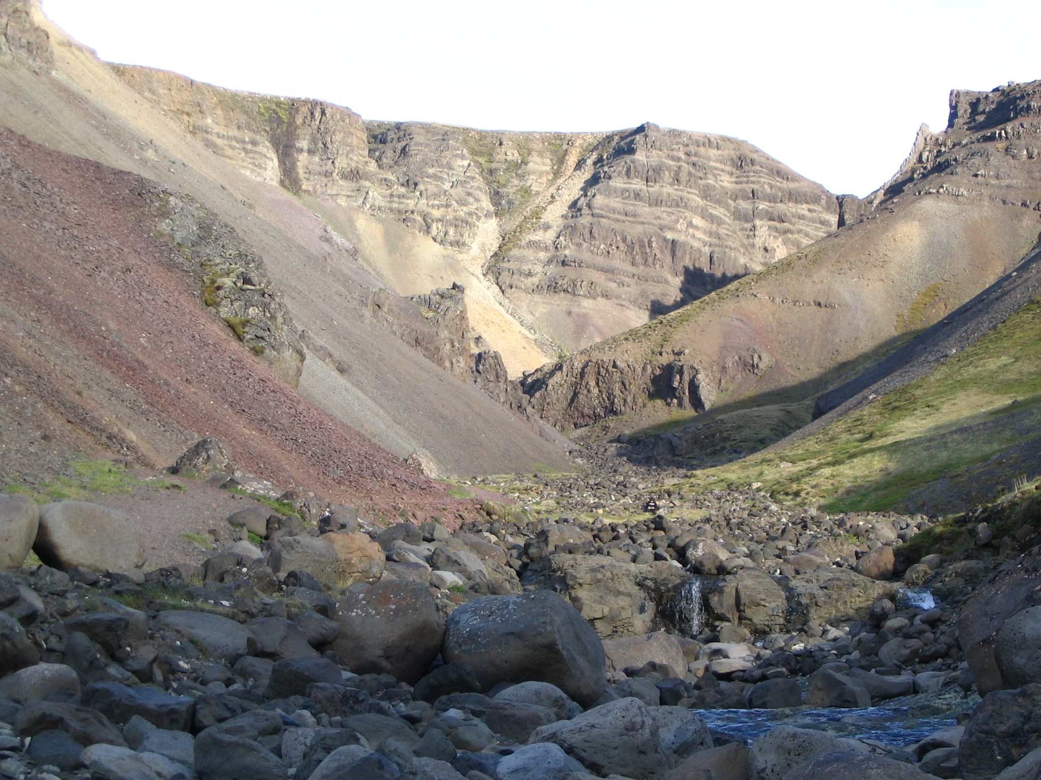 Gorge near Húsafell